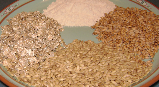 Photograph of 4 gluten sources. Top: High-gluten wheat flour. Right: European spelt. Bottom: Barley. Left: Rolled rye flakes.